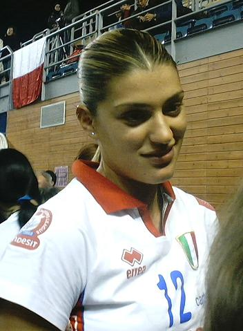 The Italian volleyball player Francesca Piccinini